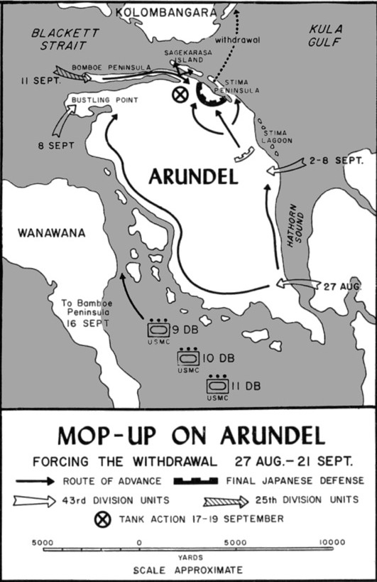 Map of the land battle on Arundel, 1943